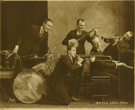 Louisiana Fivedrum kitAnton LadatromboneCharlie PanelybanjoKarl BergerpianoJoe CawleyclarinetAlcide Nunez